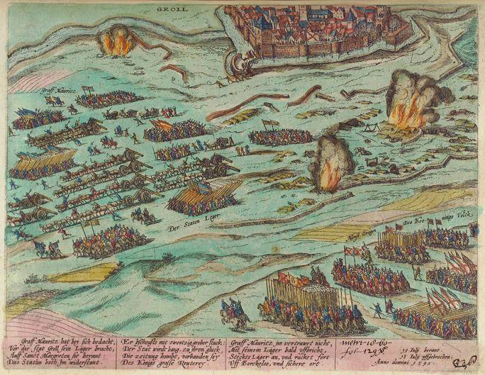 Siege of Grol (Groenlo) in 1595 by Maurice of Nassau, relieved by Mondragon. Text (German): GROLL Graff Mauritz hat bey sich bedacht, Vor die stat Groll sein Läger bracht, Auff Sanct Margreten sie berant: Das Stätlin both Im widerstant. Er bscheusts mit zwentzig grober stuck: Der Stat wirdt bang zu ihrem gluck Die zeitung kombt, vorhanden sey Des Konigs grosse Reuterey. Graff Mauritz im vertrawet nicht, Mit seinem Läger bald uffbricht, Steckts Läger an, und rucket fort Uff Borckeloo, und sichere ort.